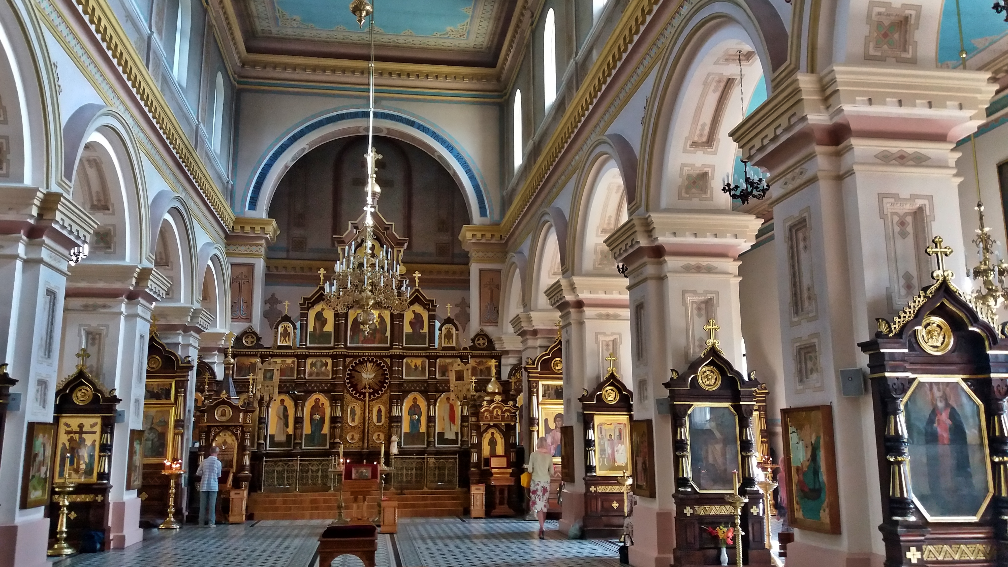 Hrodna, Orthodox cathedral of the Protection of the Holy Virgin